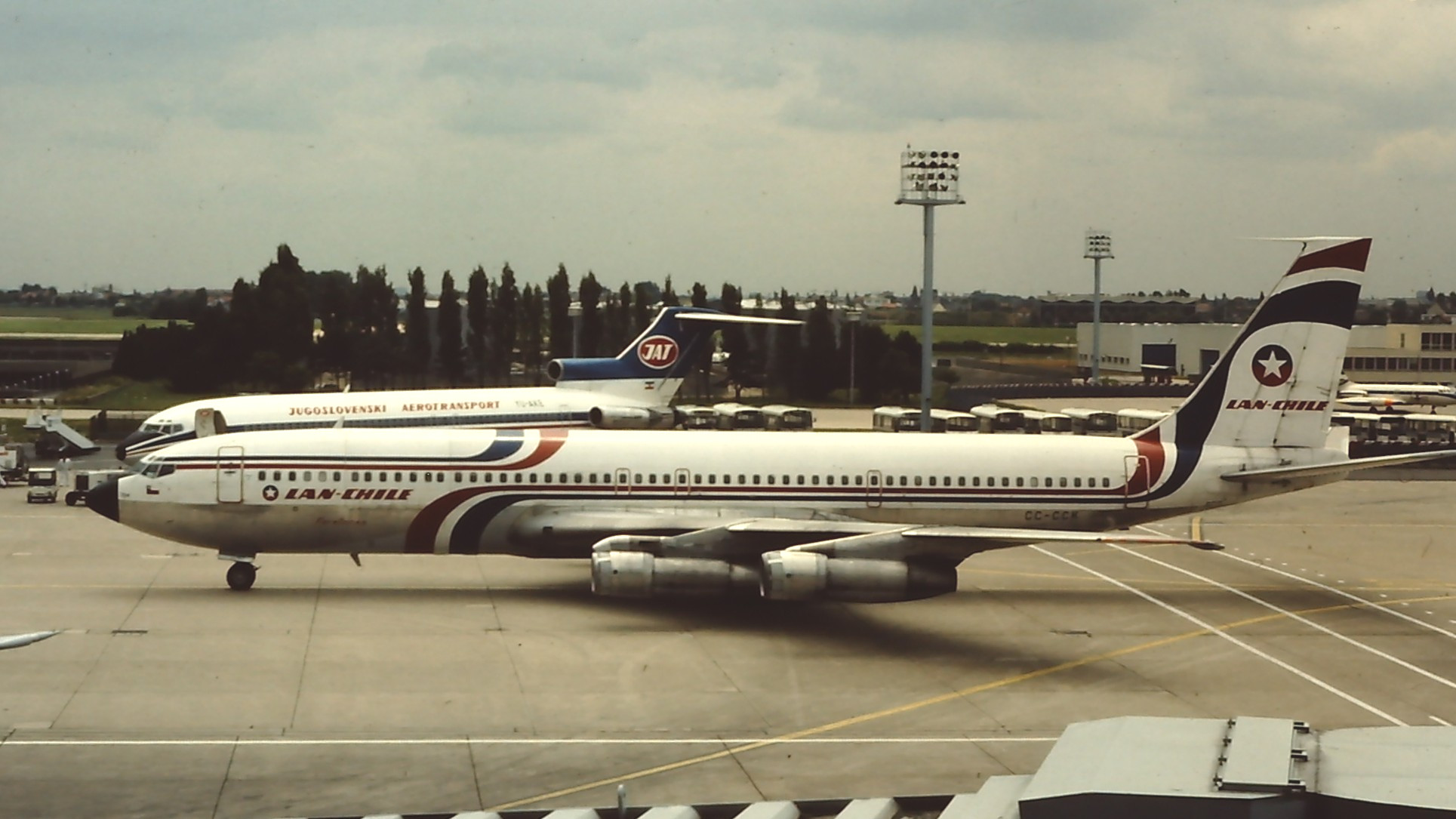 CC-CCK a Boeing 707-300 of LAN-Chile at Paris-Orly Airport (scan from slide)